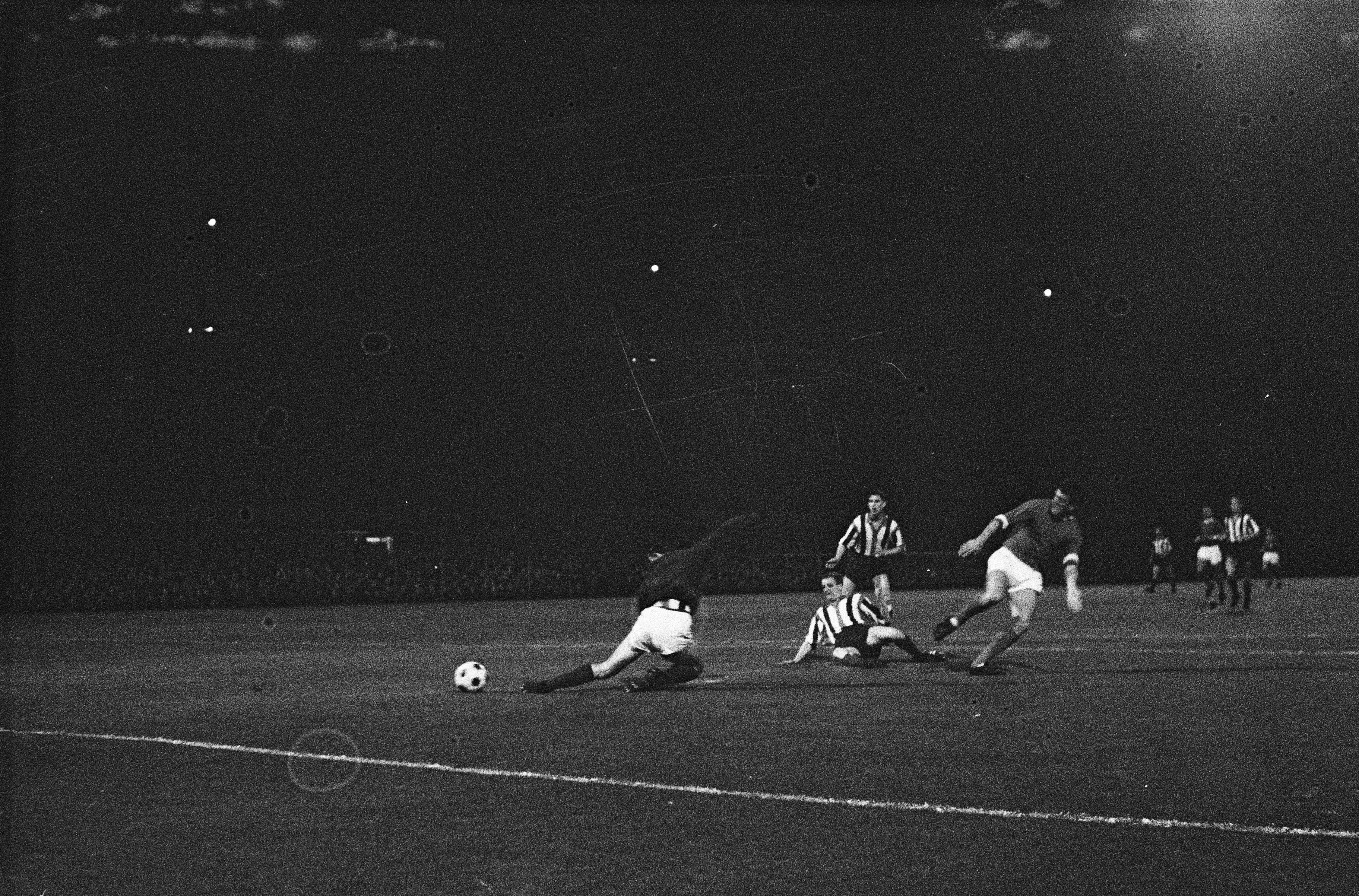 Willem II (Tilburg NL) playing Manchester United in Rotterdam, 25 Sept. 1963. David Herd scoring the first goal. End: 1-1